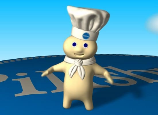 Art by Giora Eshkol